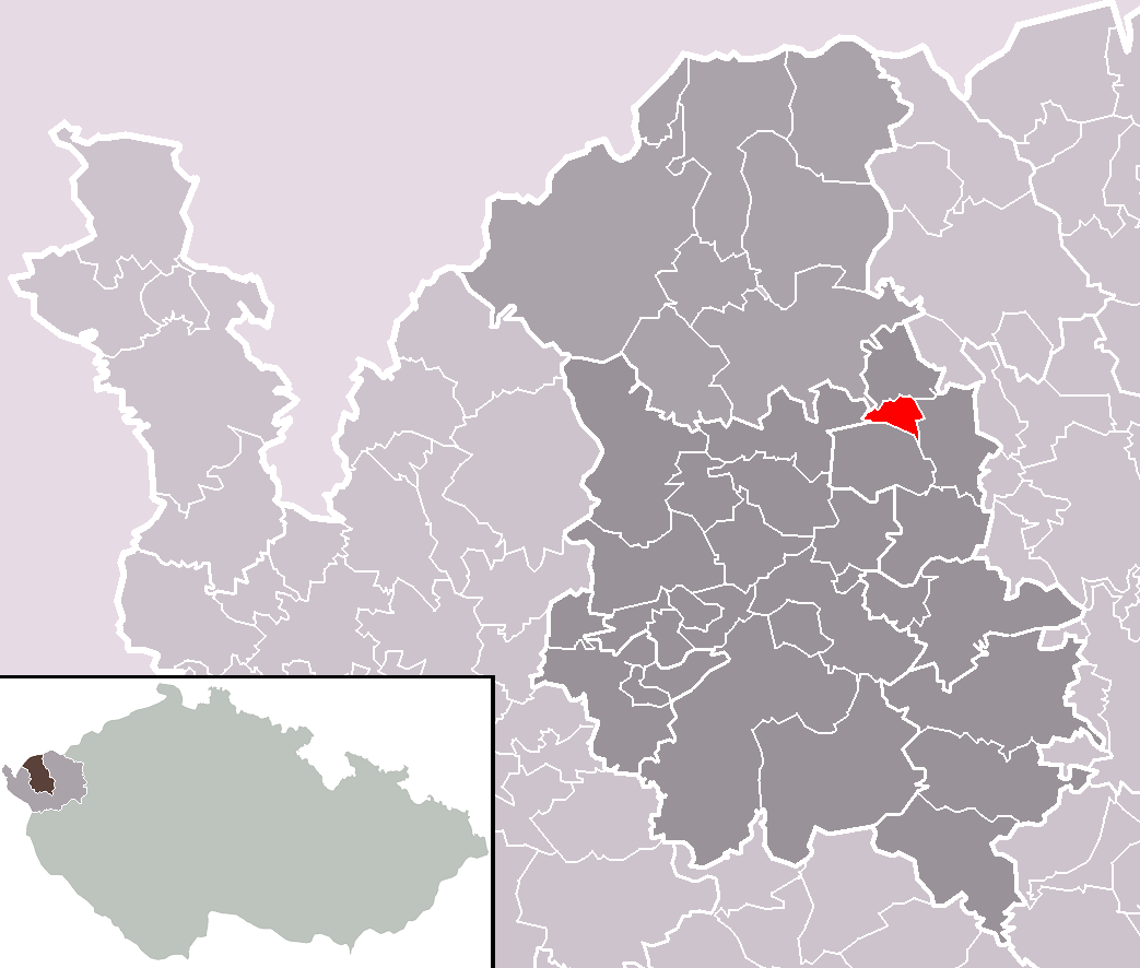 Location of Vřesová municipality within Sokolov District and administrative area of Sokolov as a Municipality with Extended Competence.